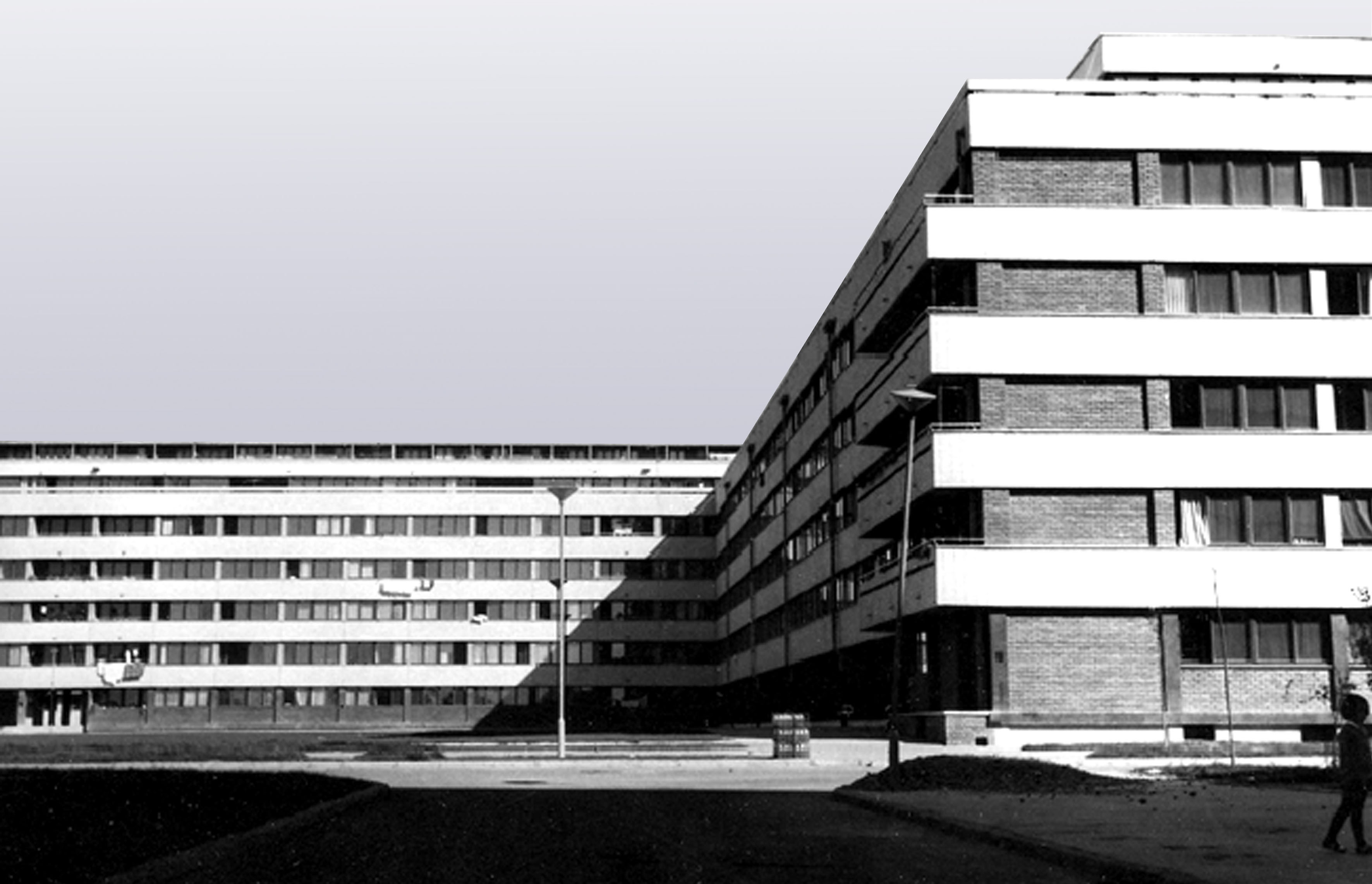 Mihailo Canak - Block 21 P+4